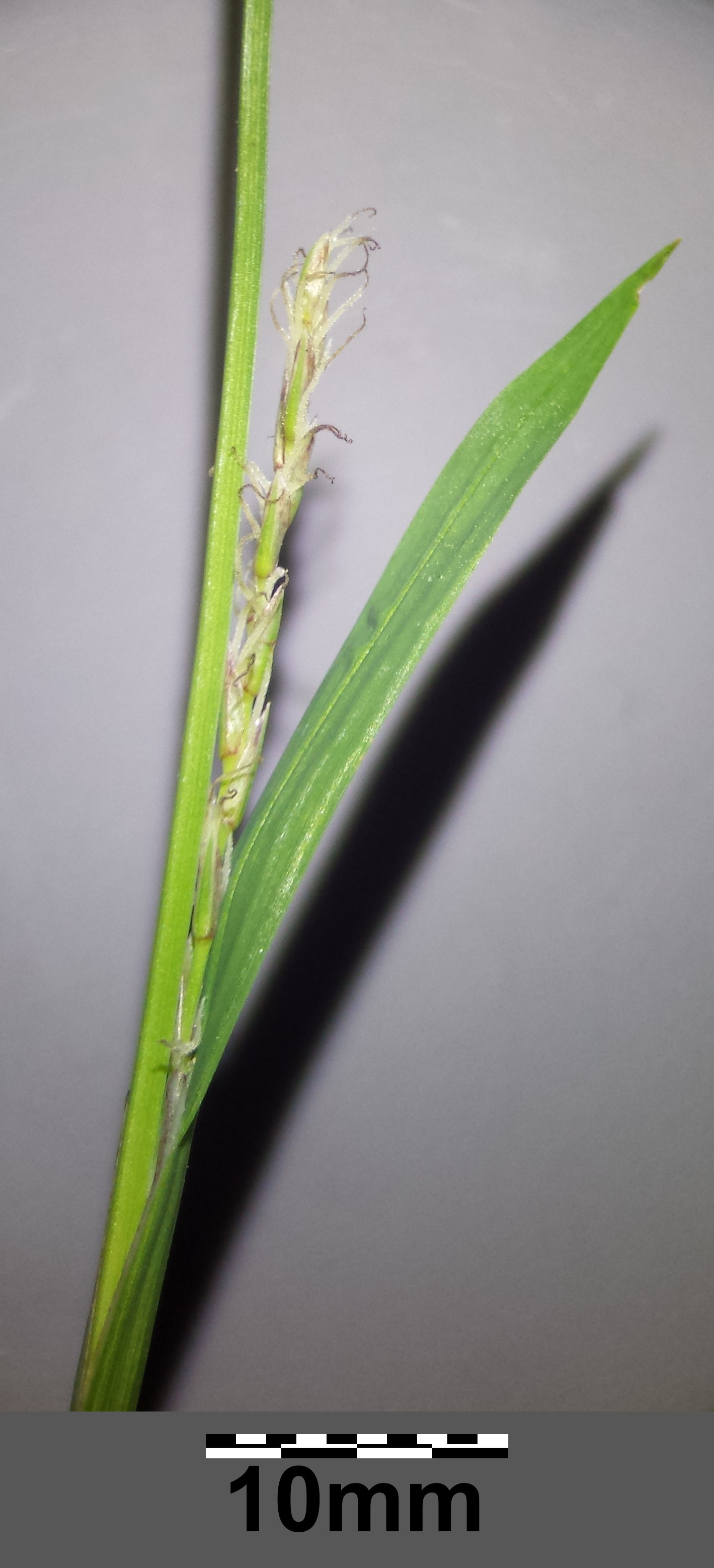 Female spike Taxonym: Carex pilosa ss Fischer et al. EfÖLS 2008 ISBN 978-3-85474-187-9 Location: Kreuttal, district Mistelbach, Lower Austria - ca. 240 m a.s.l. Habitat: dedicious forest